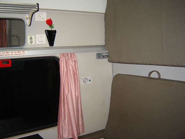 Comfortable interiors of a Rajdhani Express 2 AC coach. Photograph by Satyaki Banerjee (Oct 2006).